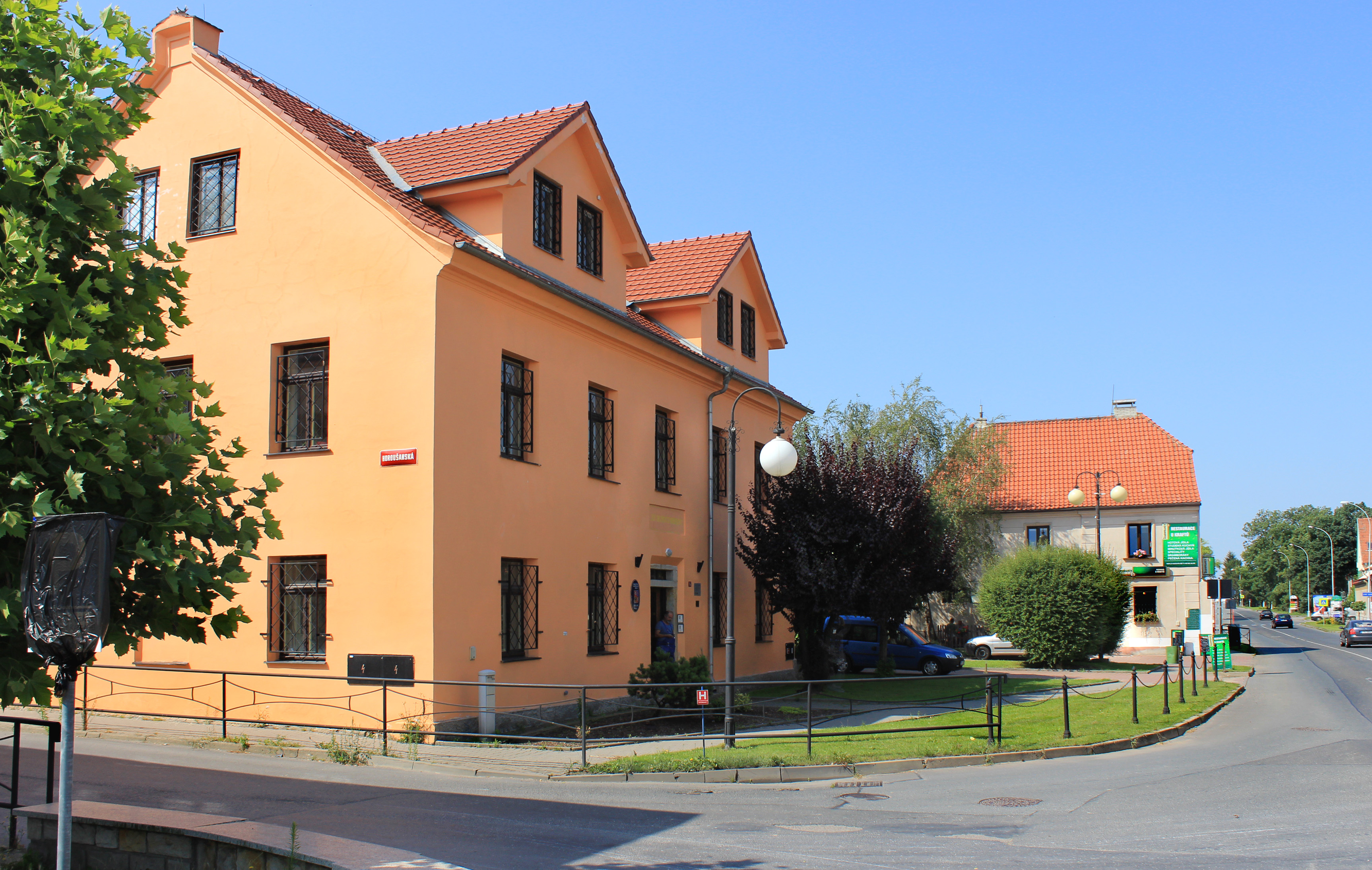 Elementary school in Nehvizdy, Czech Republic